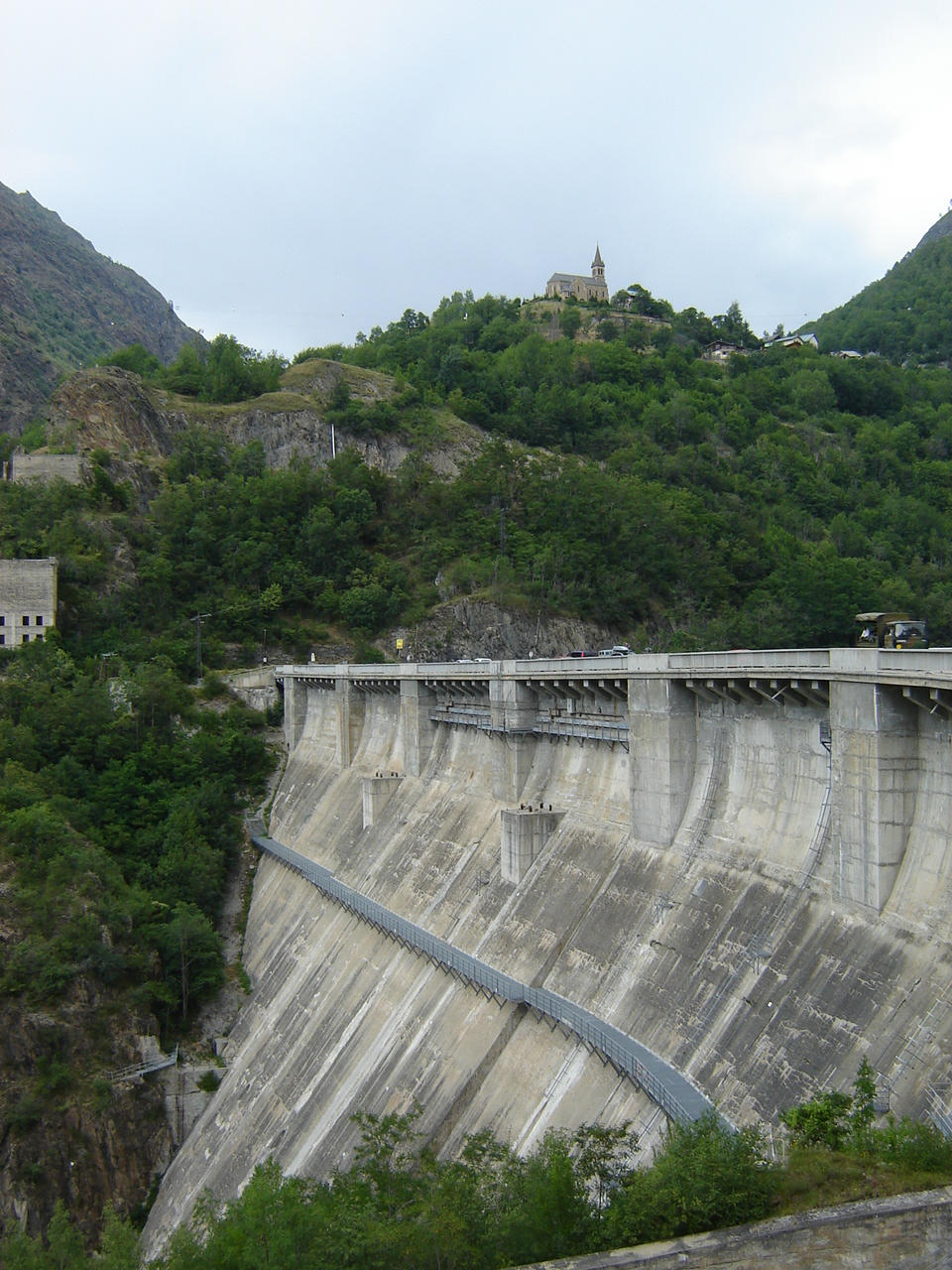 Dam Chambon and Mizoën church, Romanche valley, Isère, France